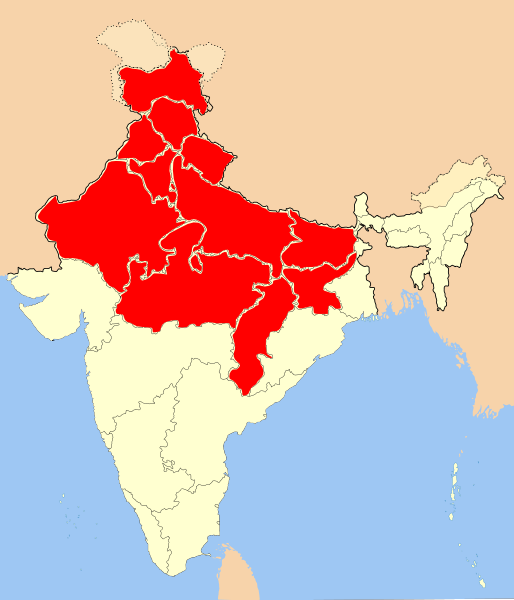 Political map of North Indian states